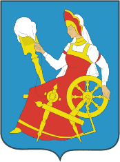 Ivanovo (Ivanovo oblast), coat of arms